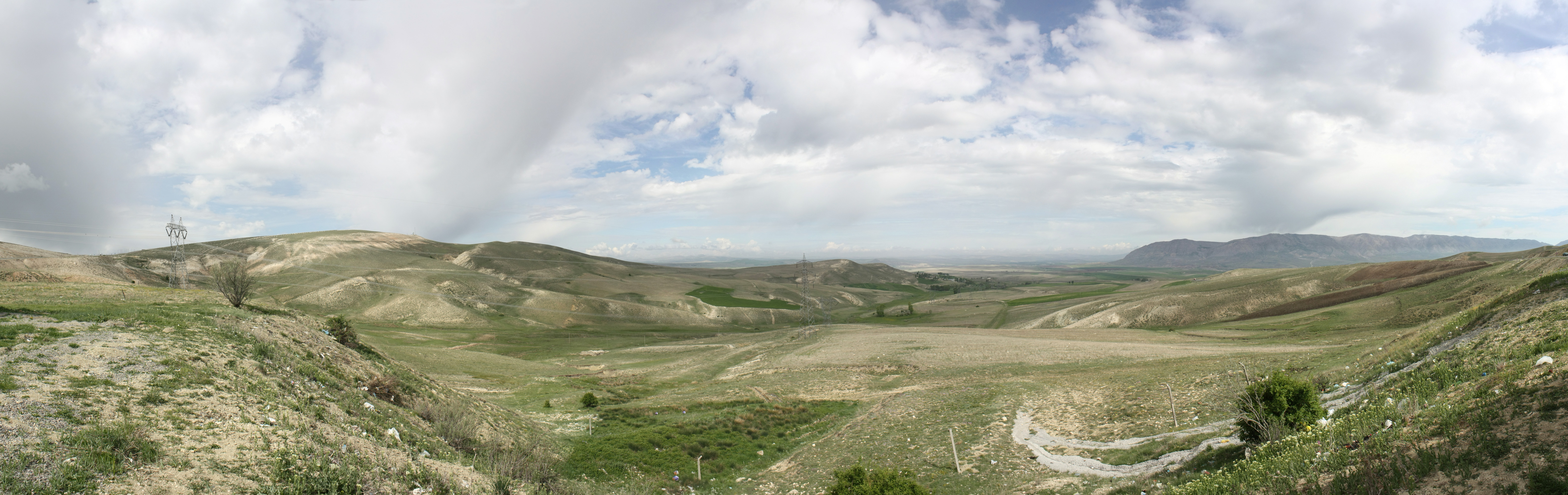 View from Yağdonduran Pass, Sivas, Turkey.